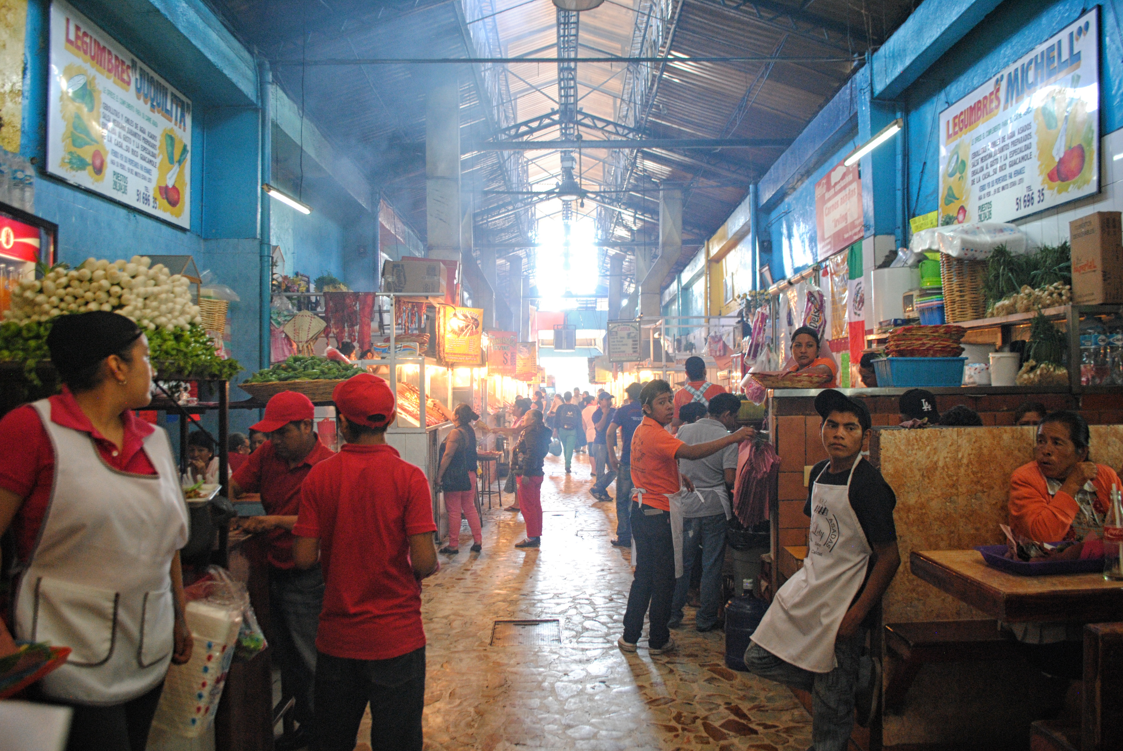 Roast meat corridor 20 de noviembre market in Oaxaca de Juarez, Oaxaca, Mexico.